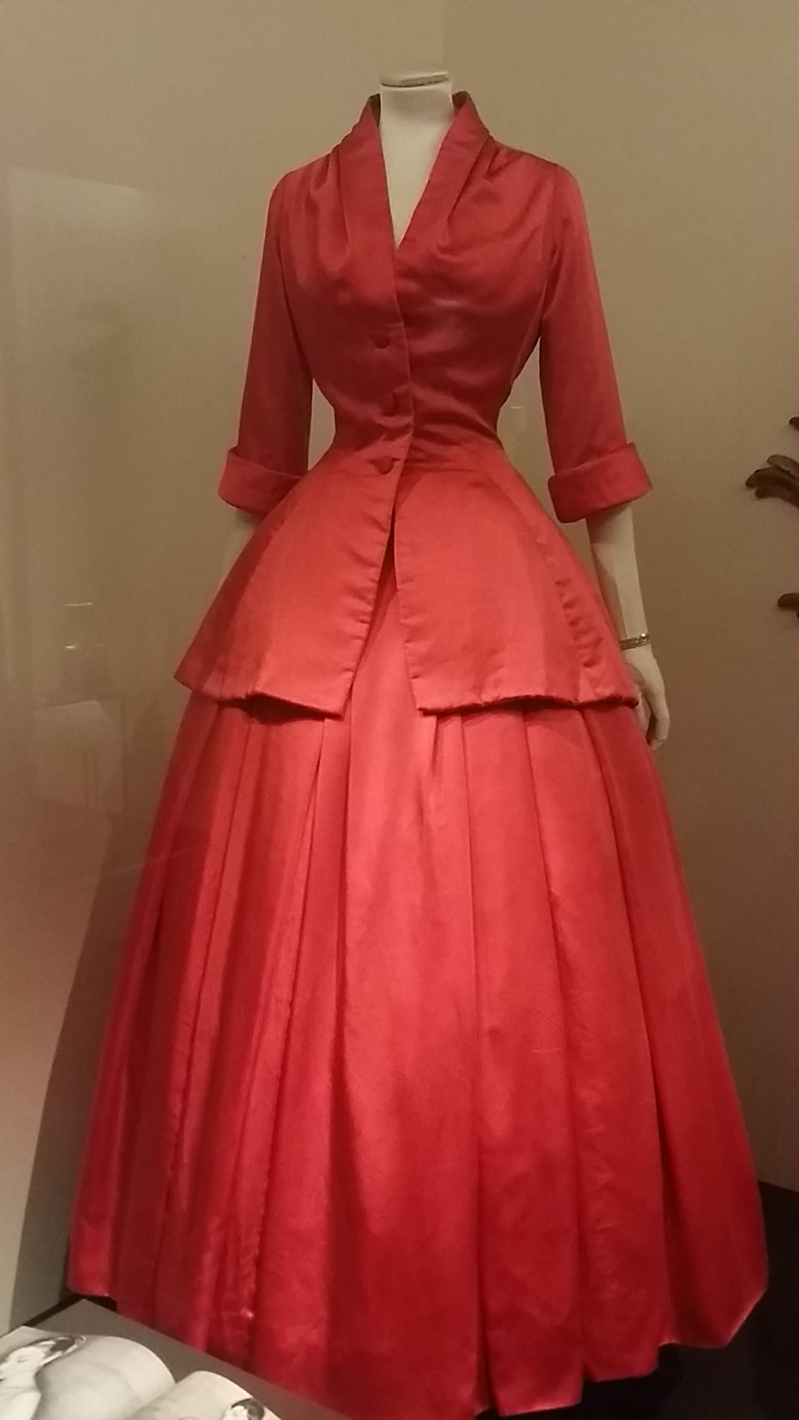 Christian Dior evening ensemble, "Zémire," H Line, Fall-Winter 1954. Red cellulose acetate satin. Ballgown skirt, separate bodice, long jacket, and petticoat with white boned corset bodice and red crinoline skirt.